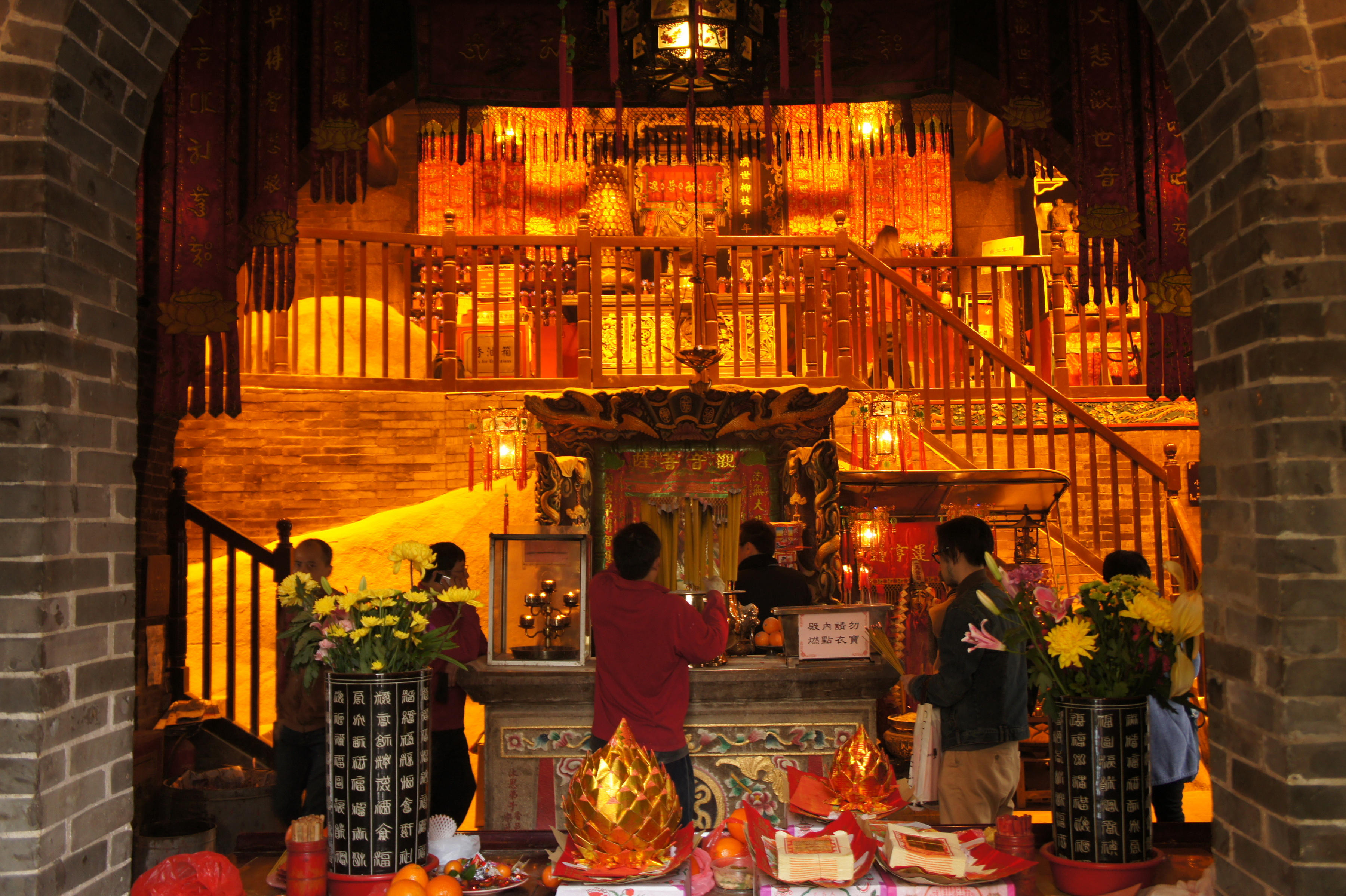 Main Hall of the Lin Fa Kung (Tai Hang Lin Fa Temple), Causeway Bay, Hong Kong.